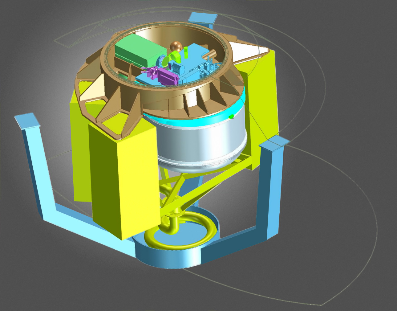 This drawing shows a concept design for the ERIS high-resolution camera and spectrograph for ESO's Very Large Telescope. ERIS — which will be active for at least ten years after it is installed — will benefit from the Adaptive Optics Facility that corrects for the blurring effects of the Earth's atmosphere. It aims to take the sharpest direct images so far obtained using a single 8-metre class telescope. ERIS is expected to see first light in late 2017 and will take over the role of the very successful NACO instrument, which is approaching the end of its life.